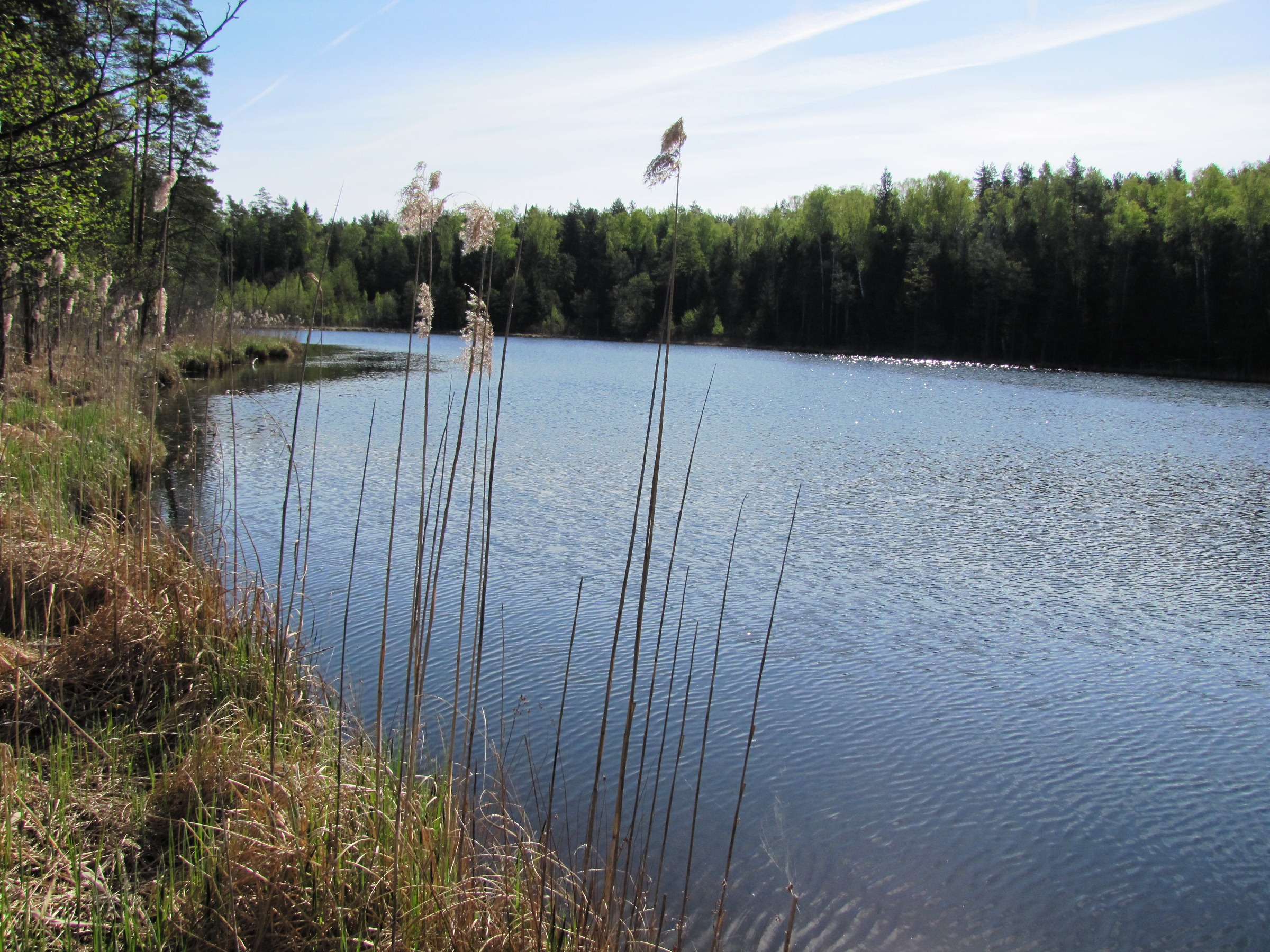 Maly Boltsik Lake, Miadziel district, Belarus